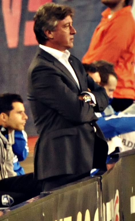 Marco Schällibaum, head coach of the Montreal Impact, watches his team play against the New England Revolution in Foxborough, Massachusetts, on 8 September 2013.